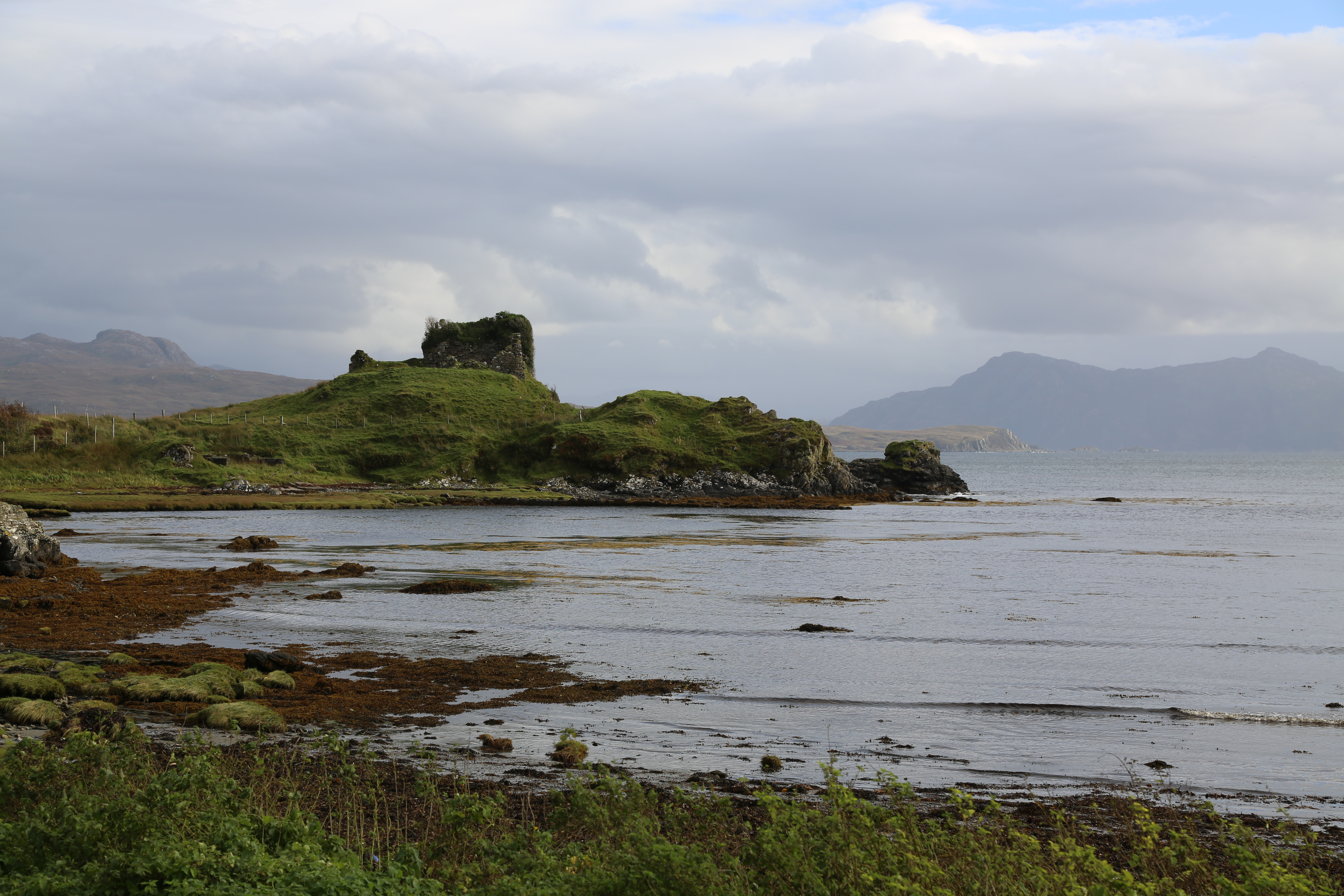 View of the remains of the castle from a local access point.